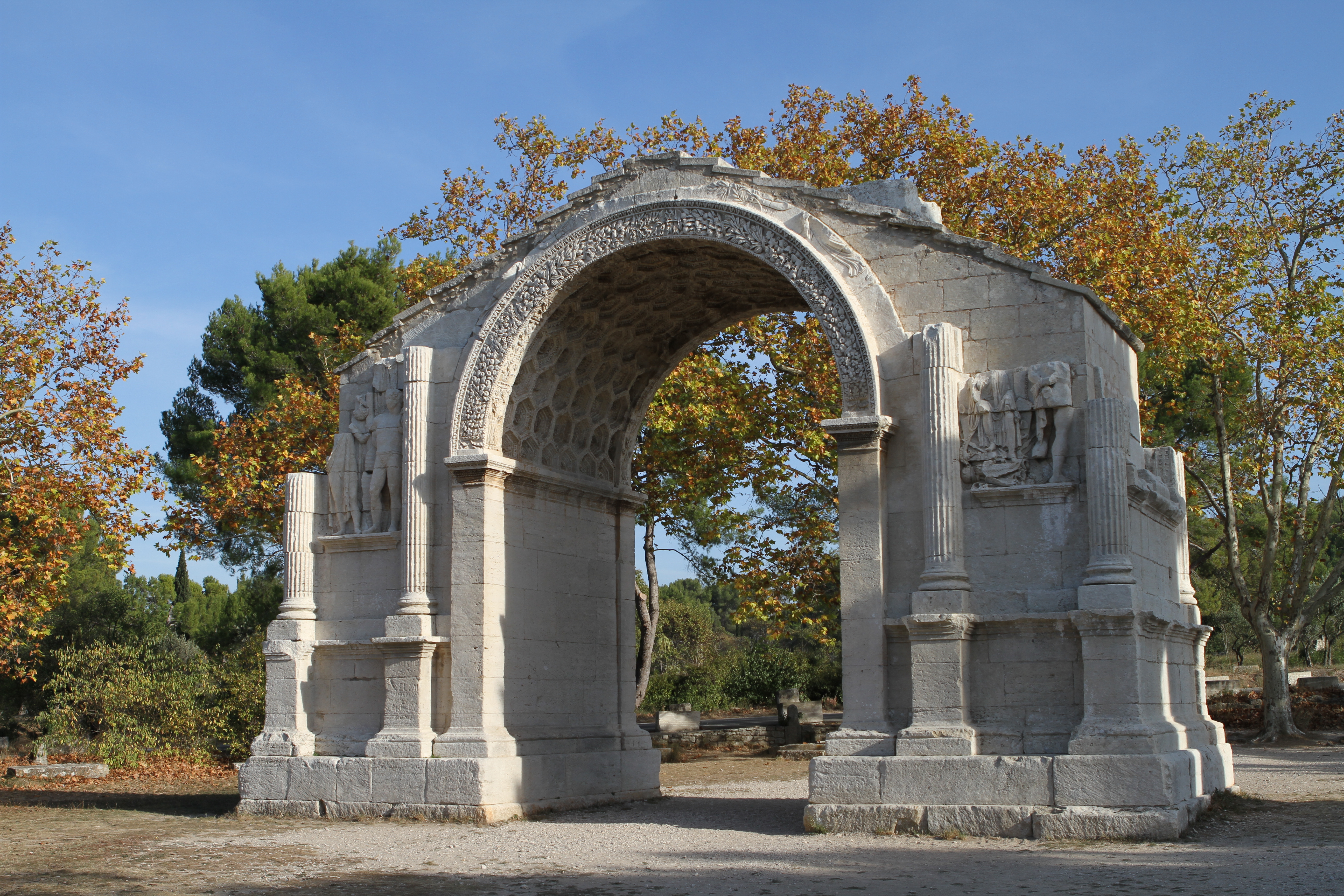 Glanum at Saint-Rémy-de-Provence (Bouches-du-Rhône, France)